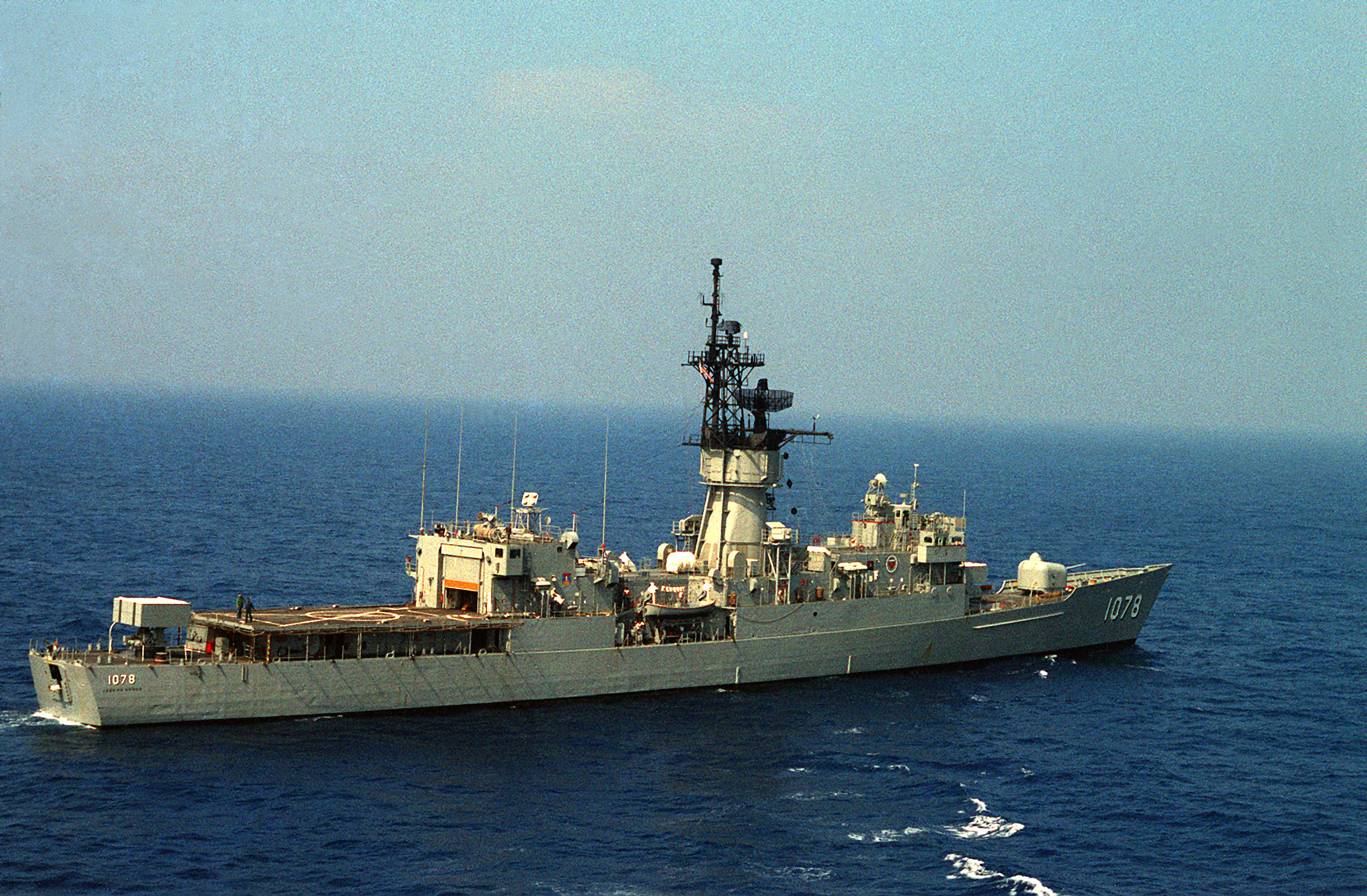 The U.S. Navy frigate USS Joseph Hewes (FF-1078) underway at sea on 5 October 1984.